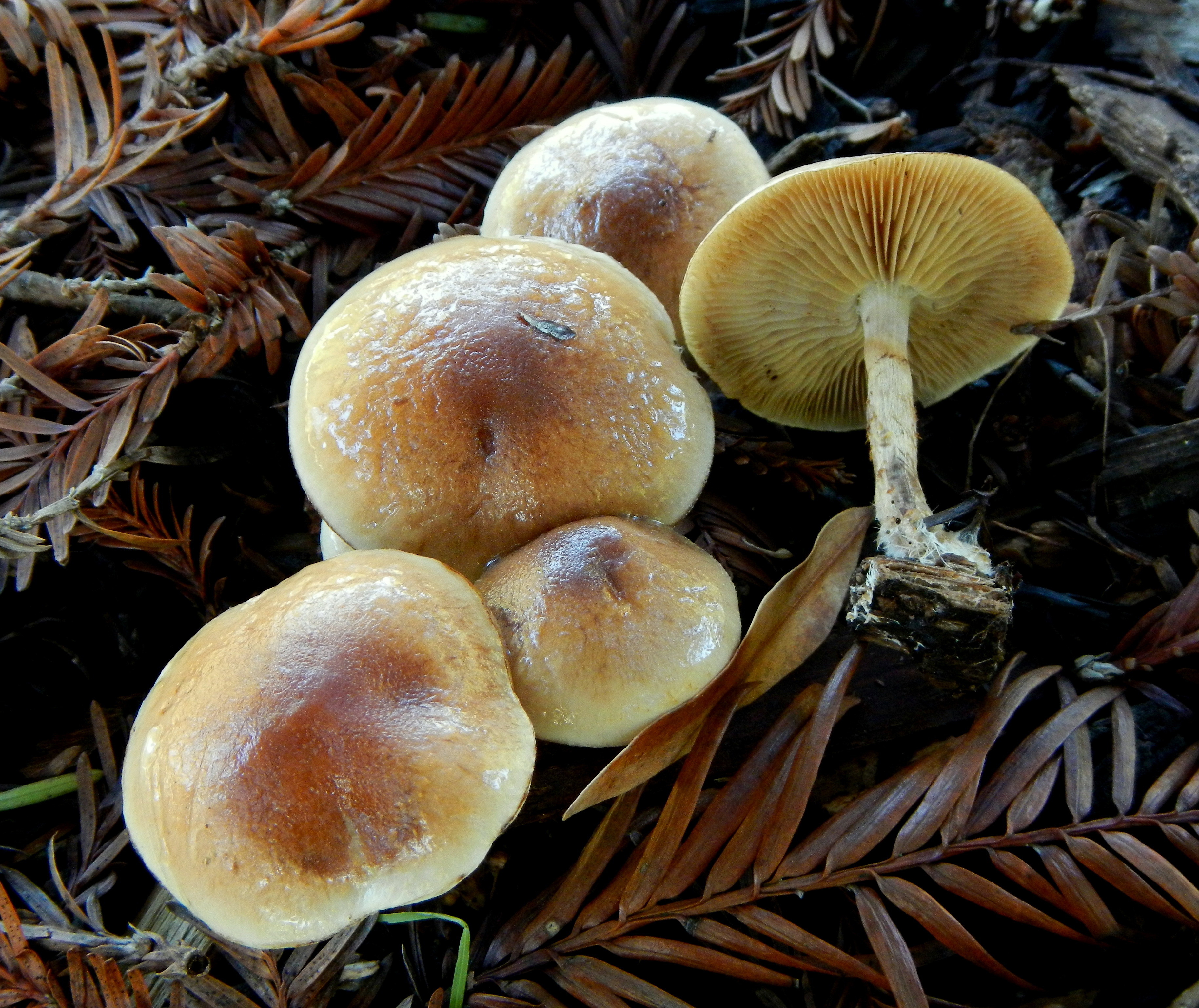 Fruit bodies of the agaric fungus Pholiota iterata A.H. Sm. & Hesler. Photographed in Bon Tempe Reservoir, Marin Co., California, USA.